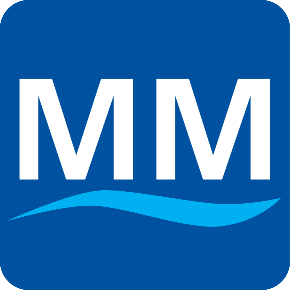 Yokohama Minatomirai Line icons File:Number prefix Minatomirai.svg is a vector version of this file. It should be used in place of this raster image when not inferior. File:Number prefix Minatomirai.PNG File:Number prefix Minatomirai.svg For more information, see Help:SVG. Templates:Vector version available/I18n